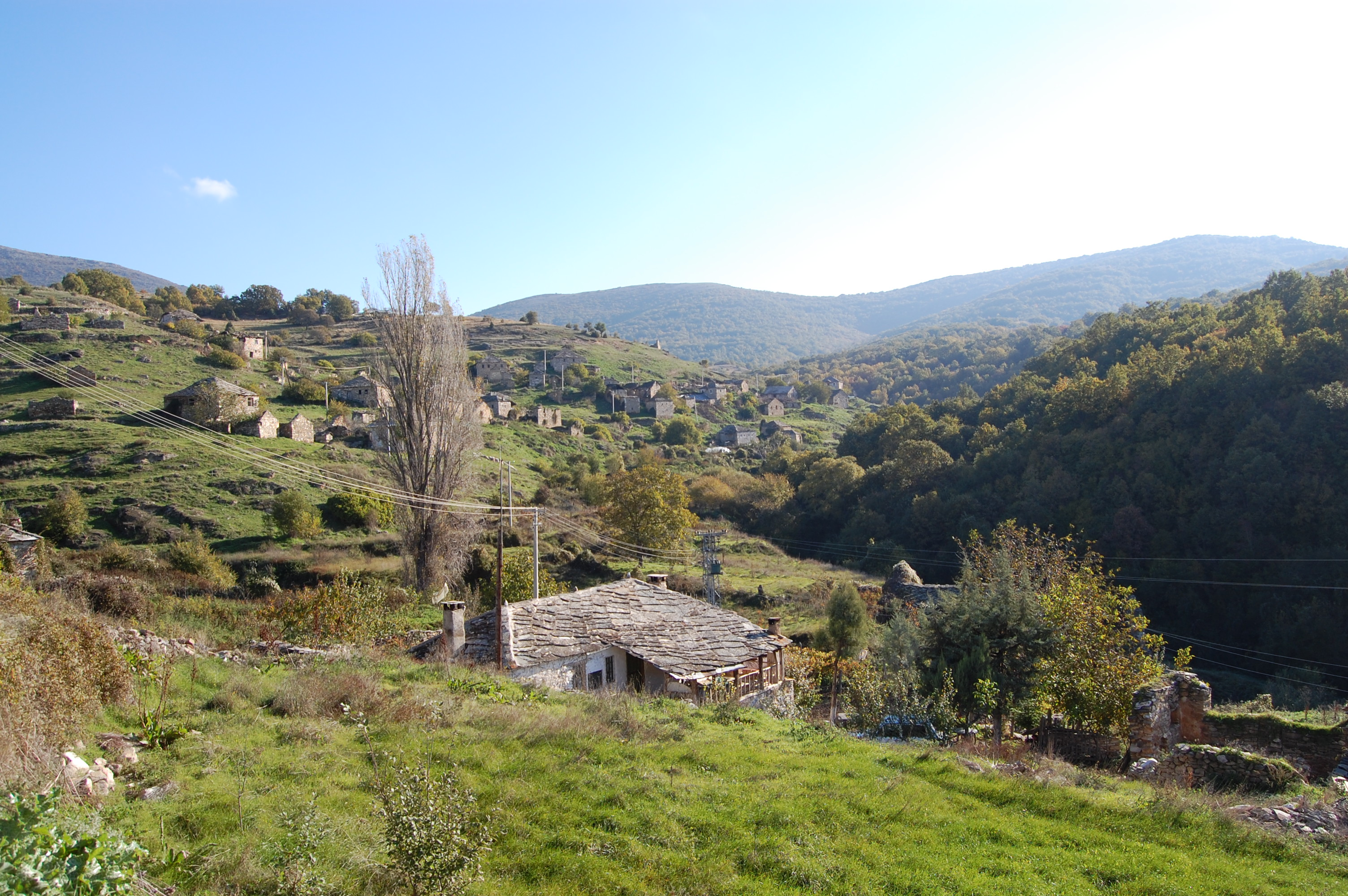 village of Veprčani in Mariovo region, Macedonia